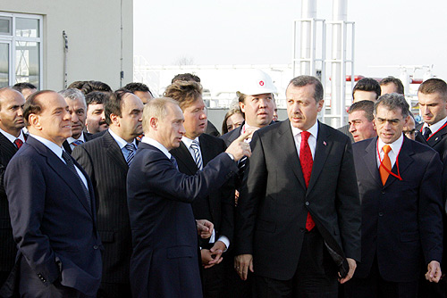 Russian president Vladimir Putin and Turkish Prime Minister Recep Tayyip Erdoğan and Italian Prime Minister Silvio Berlusconi at the opening of the Blue Stream Gas Pipeline